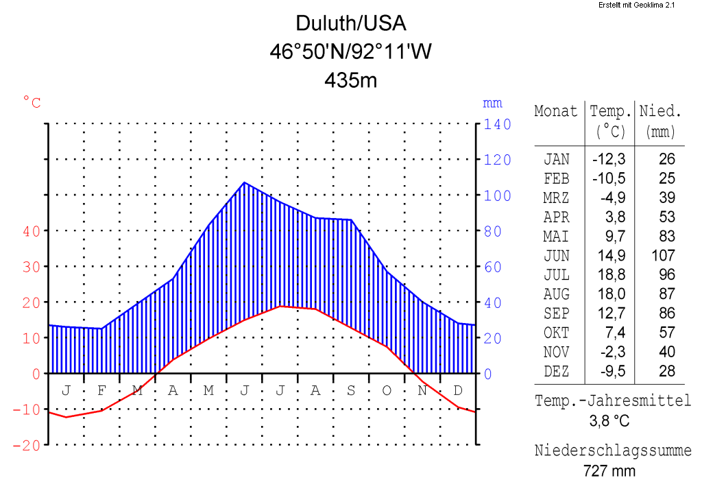 climate chart in the format by Walther and Lieth, metric, °Celsisus and millimeters, made with Geoklima 2.1